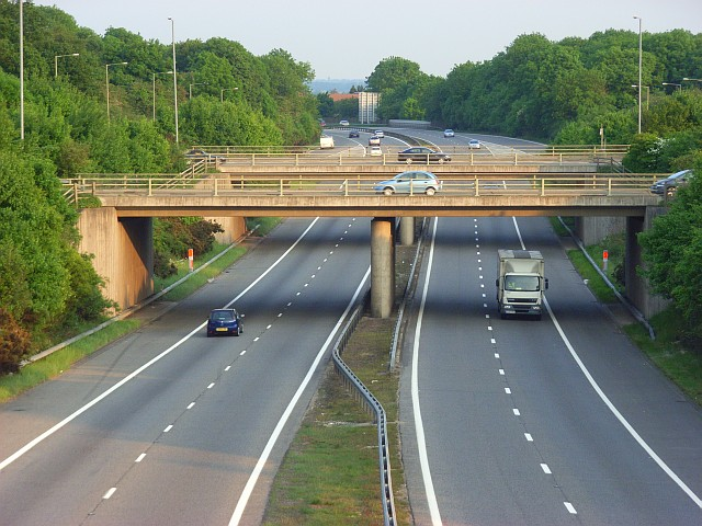 The A404(M), Maidenhead The start of the motorway as viewed from a footbridge on Maidenhead Thicket. The bridges are on Thicket Roundabout.